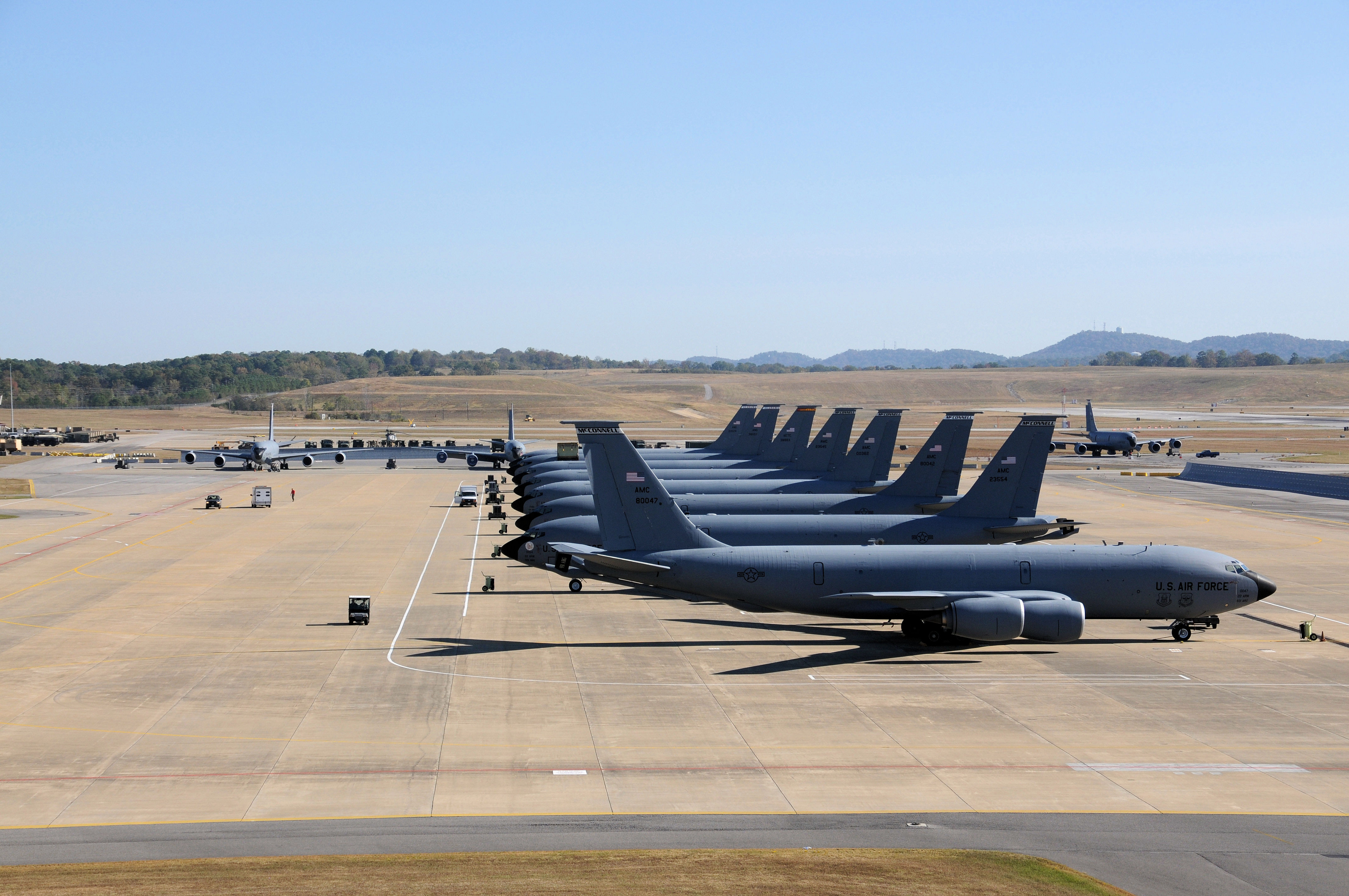 117th AFR KC-135s on Birmingham Flight Line